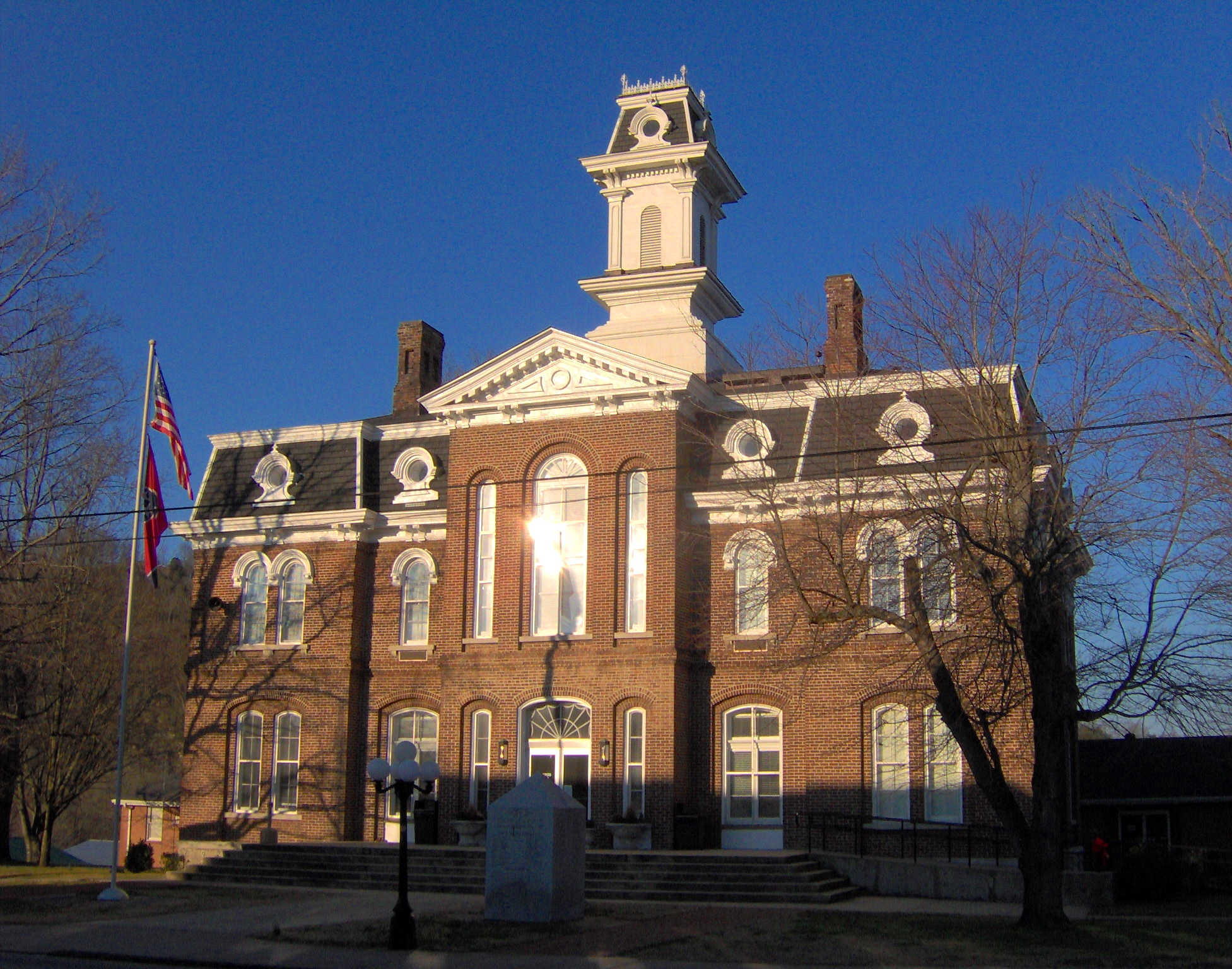 Smith County Courthouse in Carthage, Tennessee, in the southeastern United States. The courthouse was built by Henry Jackson in 1879 and added to the National Register of Historic Places in 1979.